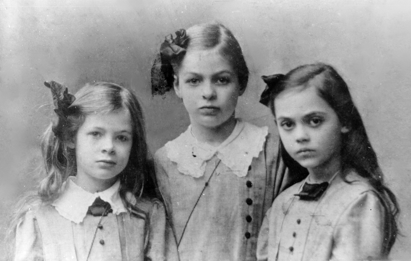 Photo: Vera & Maria Tiutchevi, Nina Lachinova. 1915. Tzarskoe Selo